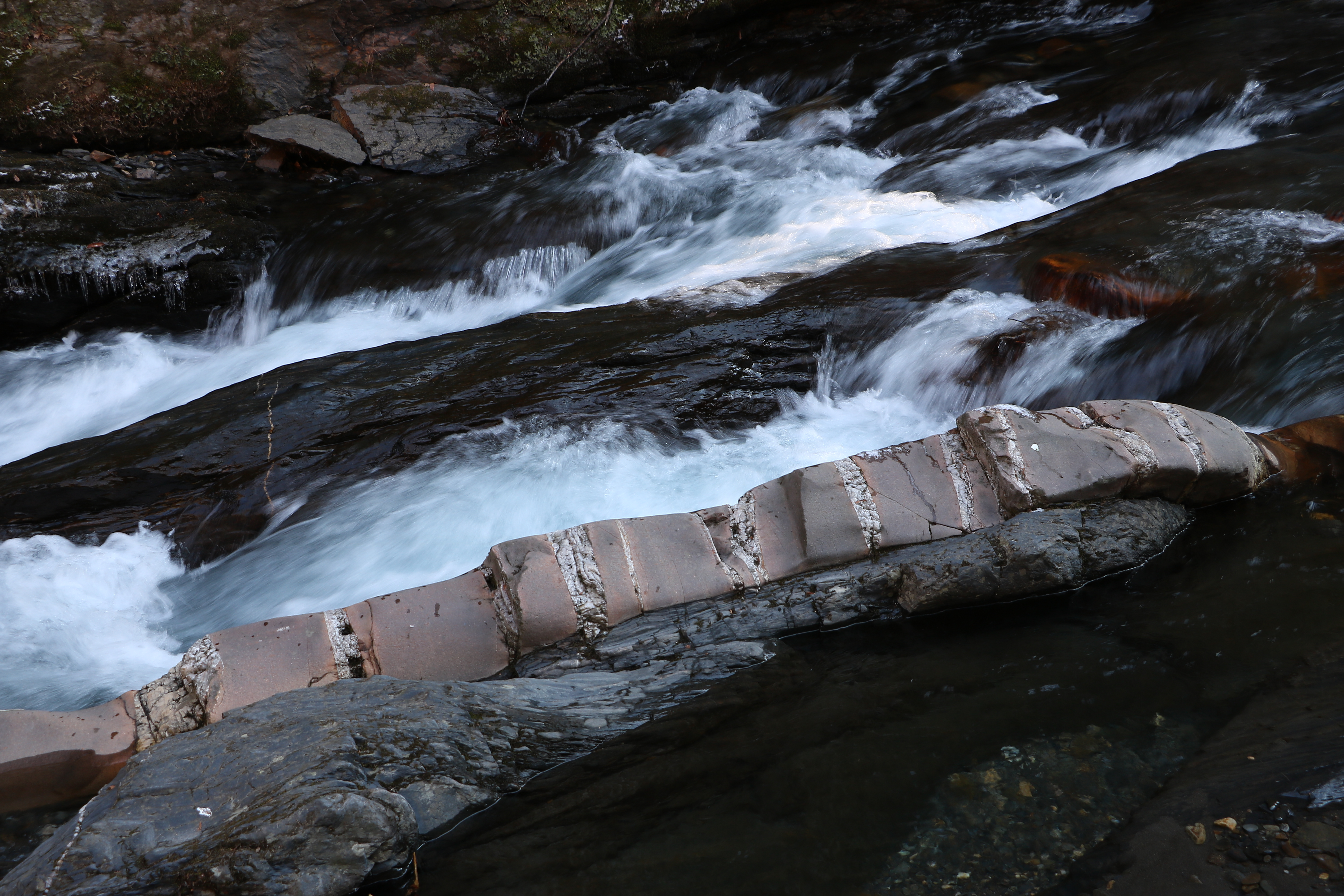 Yokokawa-no-Jaishi dikes (geology). This is a natural monument of Japan. Tatsuno cho Nagano prefecture.